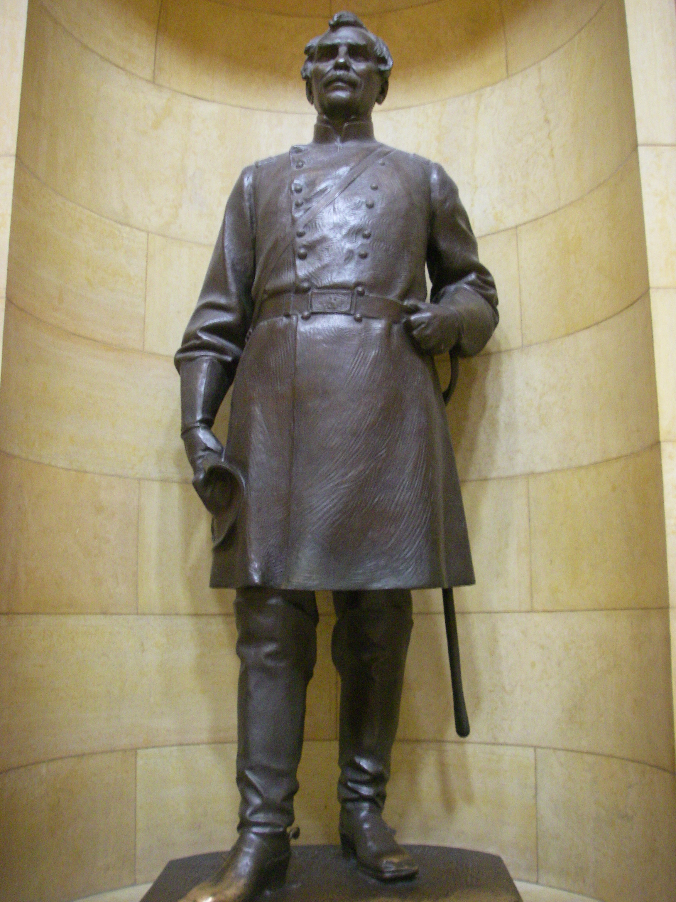 Major General James Shields 1810-79. Served with distinction in the Mexican War. Defeated Stonewall Jackson at Winchester, VA, 1862. United States Senator from Minnesota, Illinois, Missouri. Statue by Frederick Cleveland Hibbard, ca. 1910.